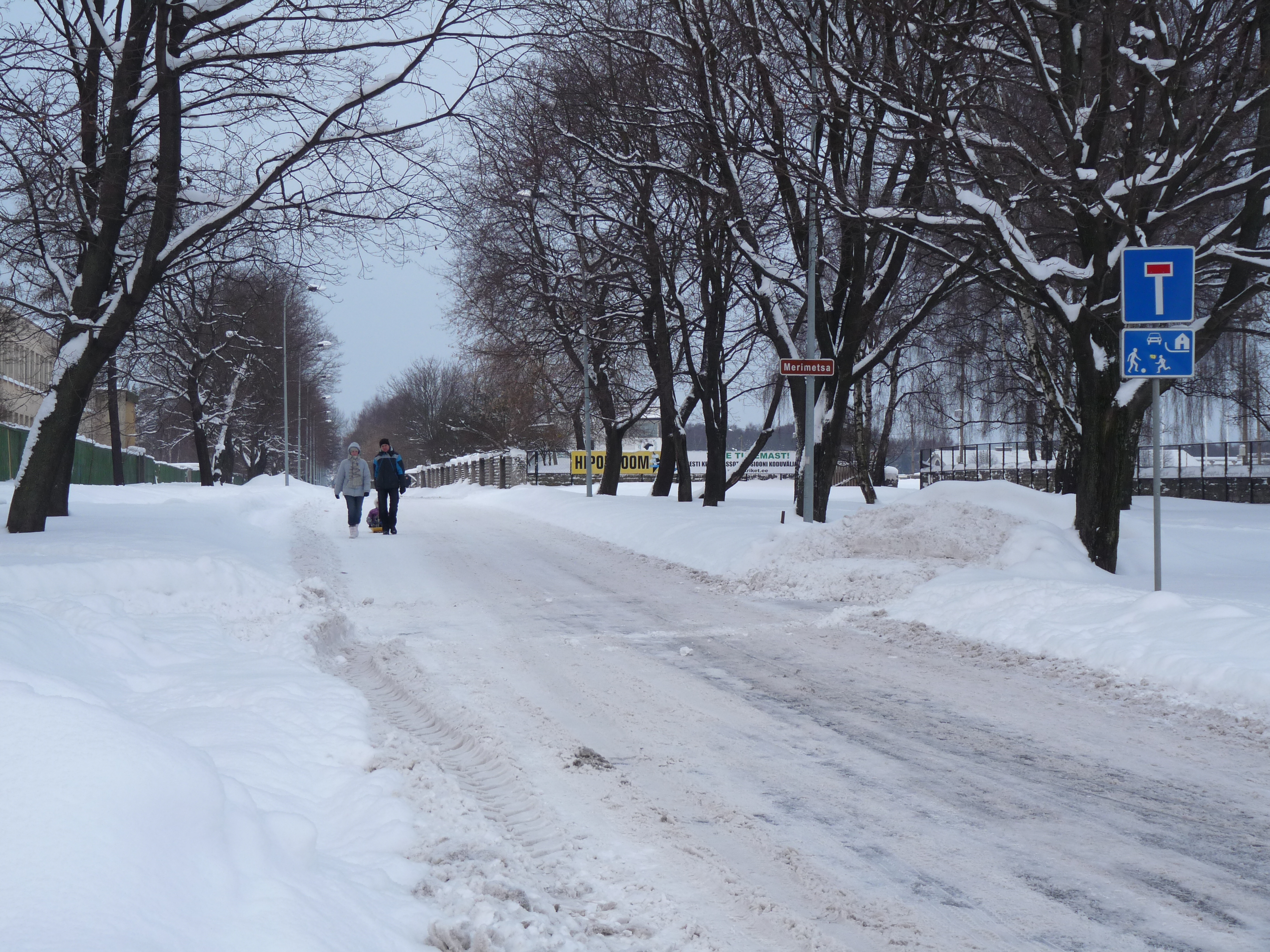 Merimetsa subdistrict and same named street in Tallinn